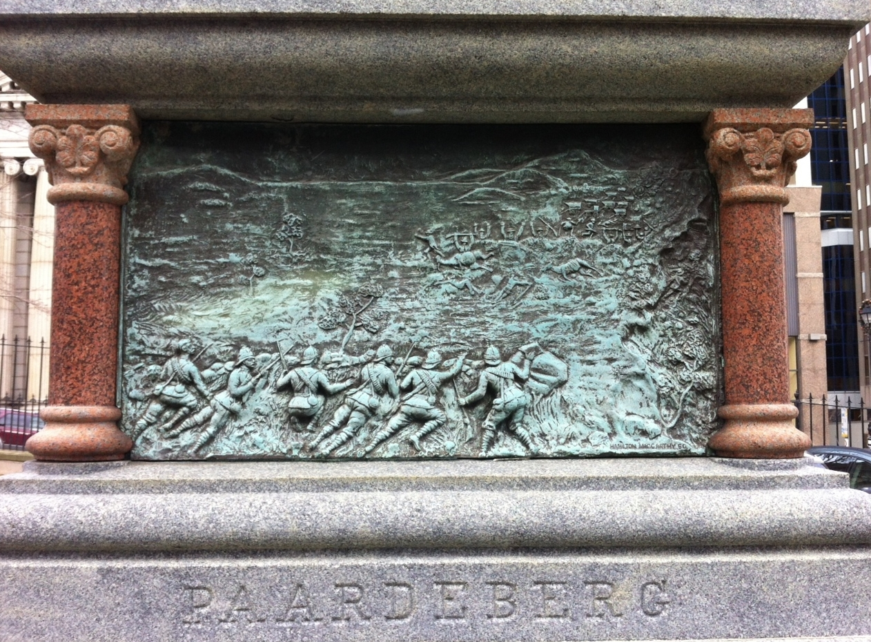 Paardeberg Monument Province House Halifax NovaScotia by Hamilton MacCarthy